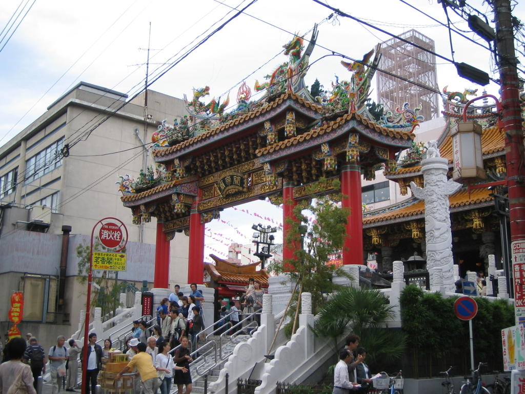 Buddhist temple in Yohohama chinatown, Japan